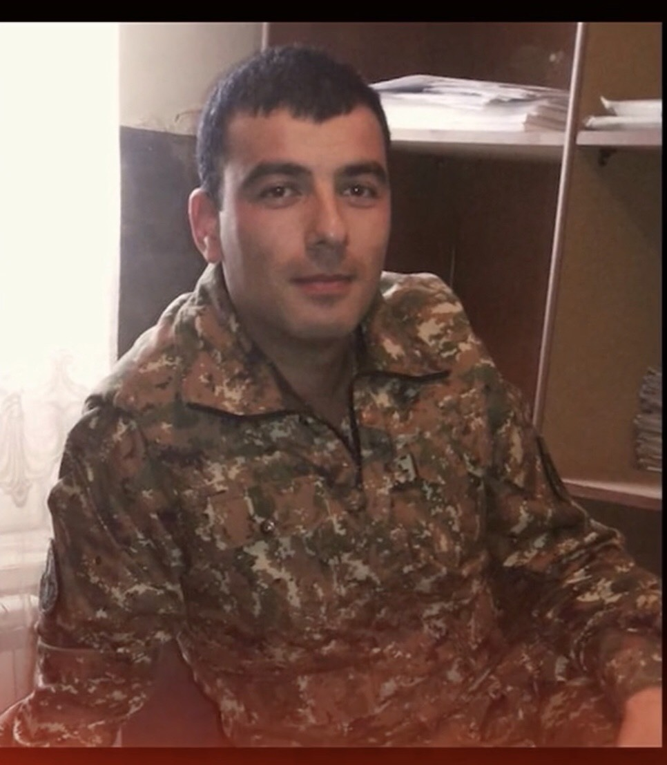 Հայկ Թորոյան